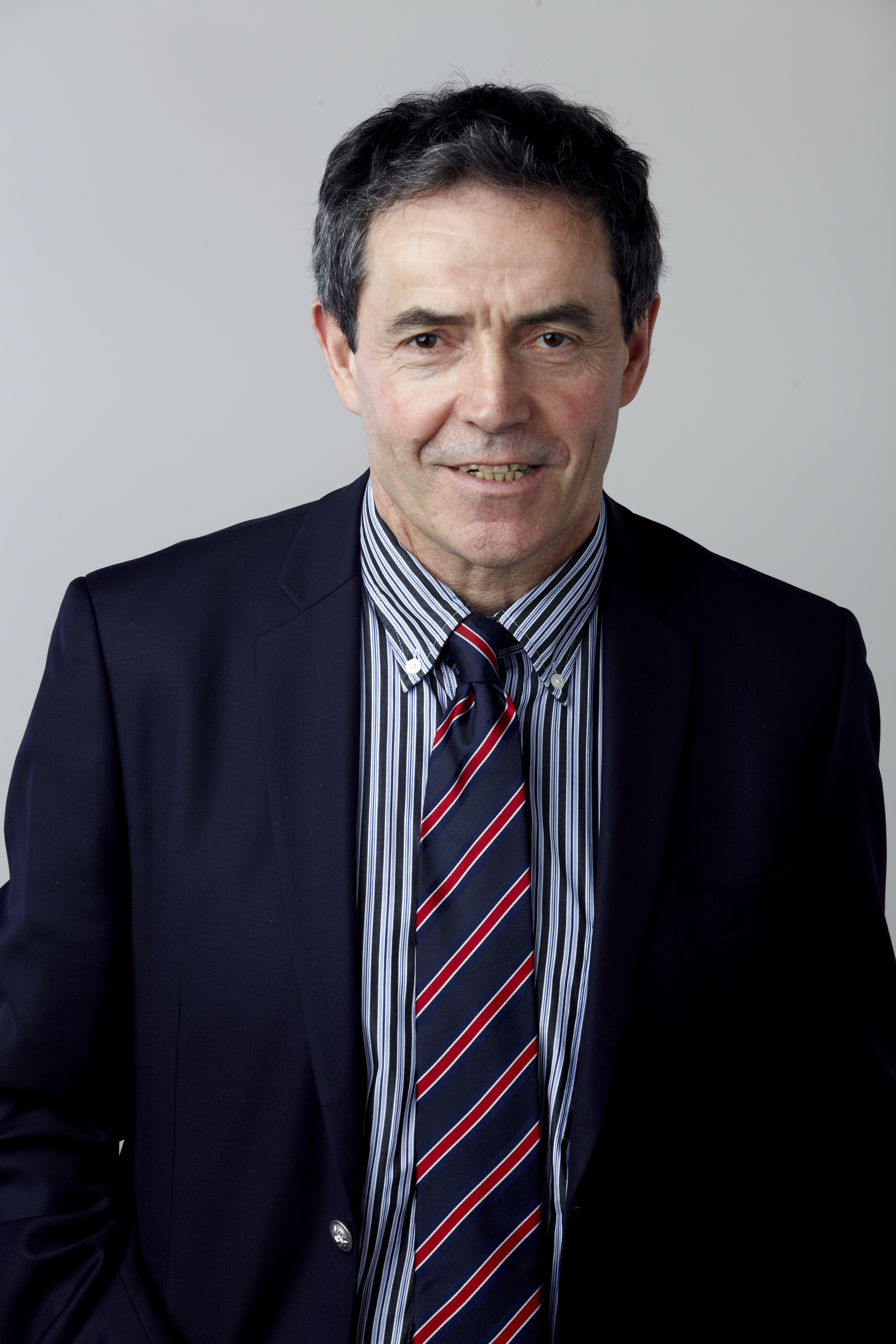 Professor Jean-Marie Tarascon ForMemRS, Royal Society Foreign Member Attribution: The Royal Society